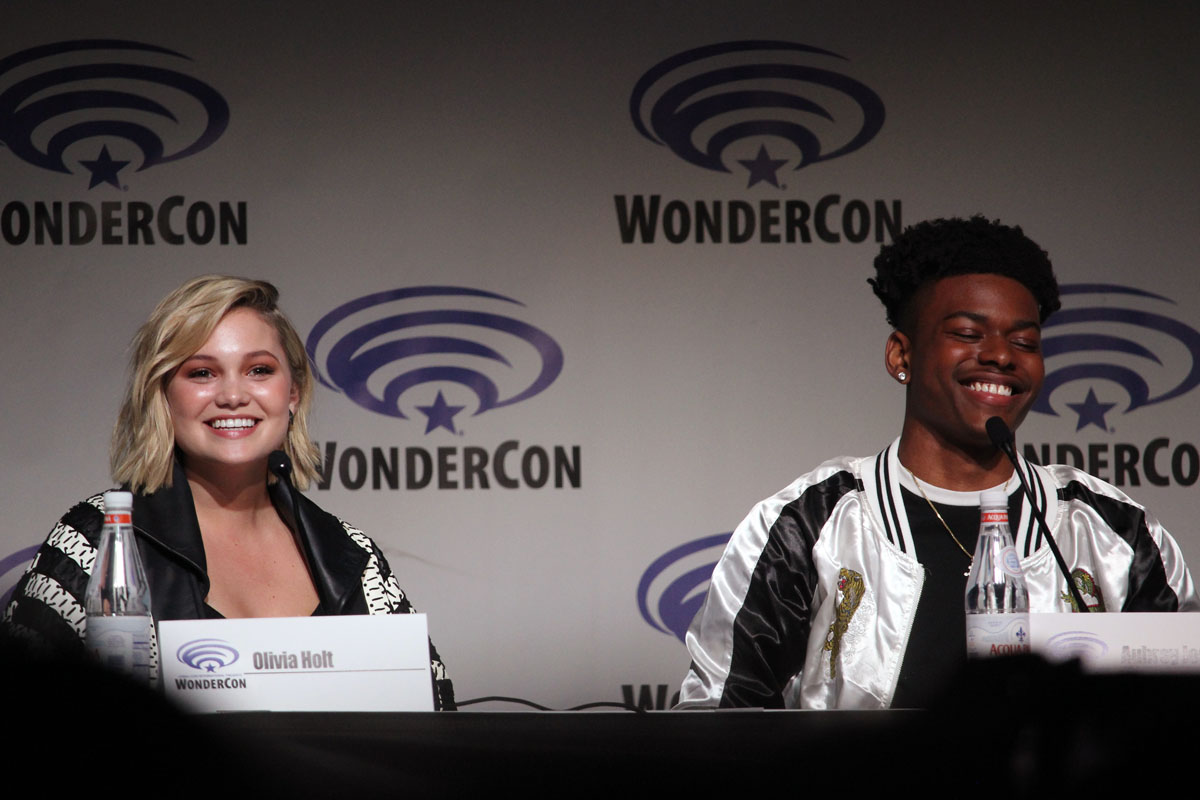 Olivia Holt and Aubrey Joseph at the Wondercon 2018 Cloak & Dagger Panel